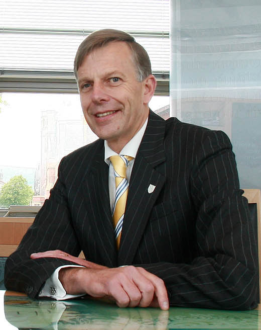 Employment and Learning Minister, Dr Stephen Farry meets Queen's University Vice Chancellor Peter Gregson in the CS Lewis Room of the McClay library at Queen's University. The Minister toured the £50m McClay library, the university's ANSIN research hub in the School of Maths and Physics and the Cancer for Research and Cell Biology Centre where he meet academics and research students. Related press release: Queen’s University plays key role in knowledge economy: Farry Date: 08/06/11